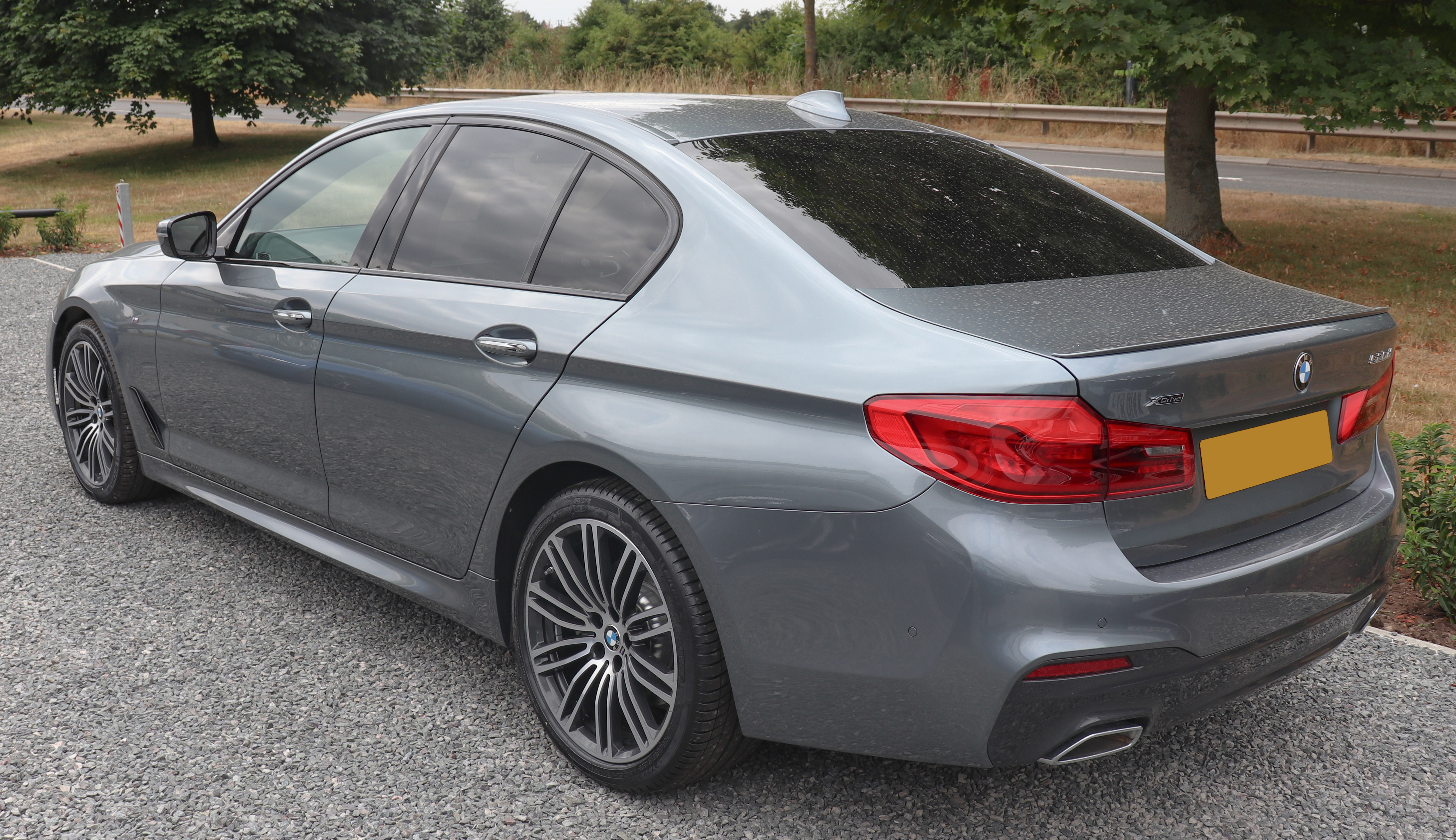 2018 BMW 520d xDrive M Sport Automatic 2.0 Rear Taken in Leamington Spa